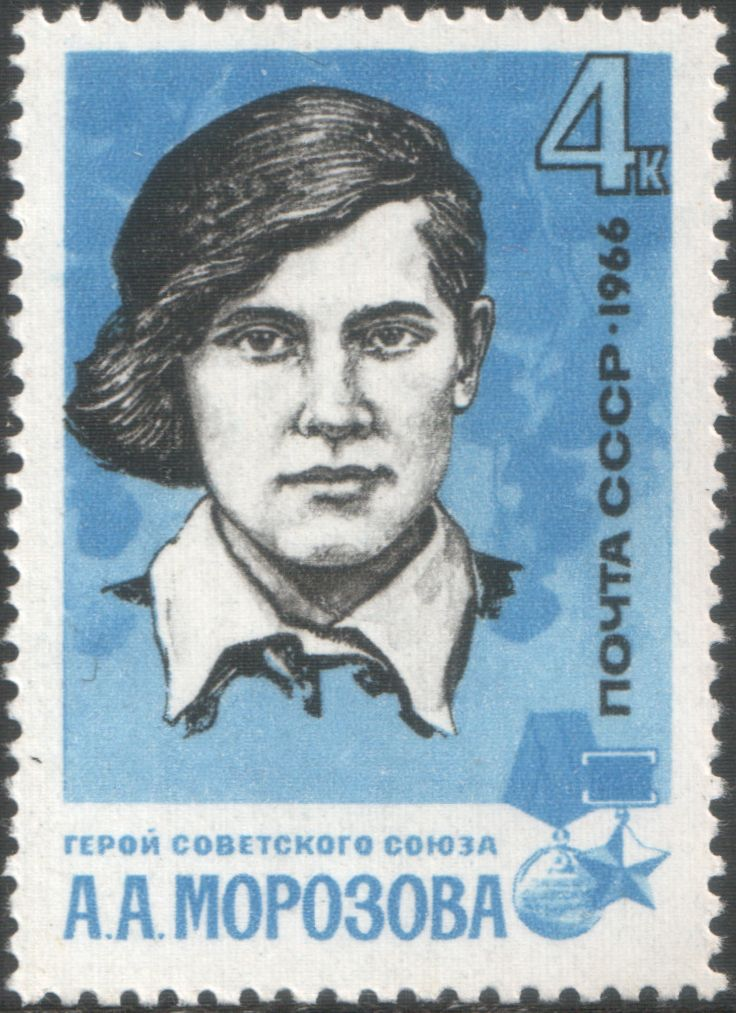 Stamp of USSR: Portrait of Hero of USSR A. A. Morozova (1921-1944). Issue: Heroes-Partizans of Second World